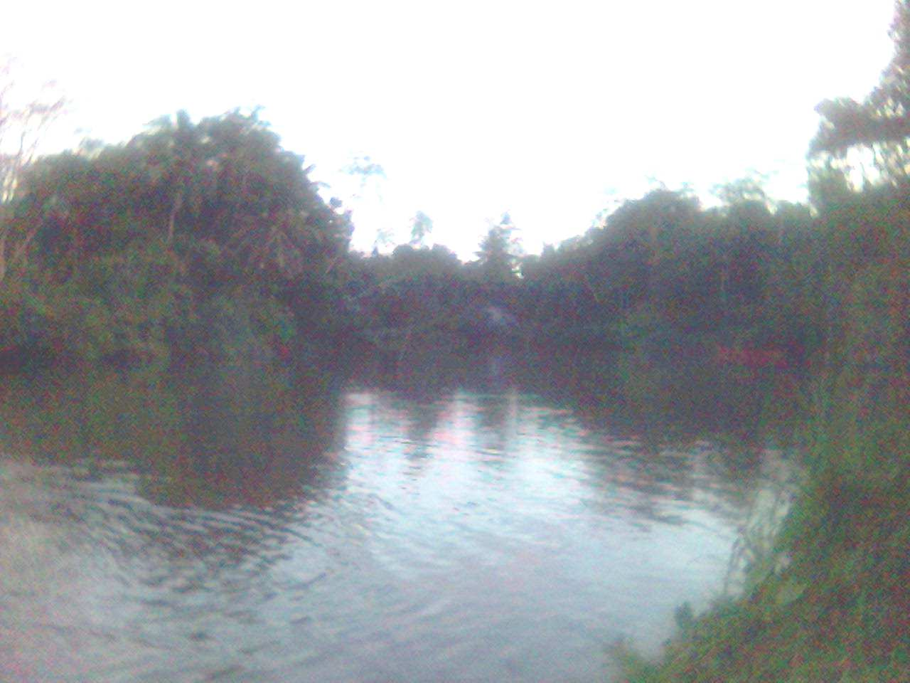 Gin ganga.